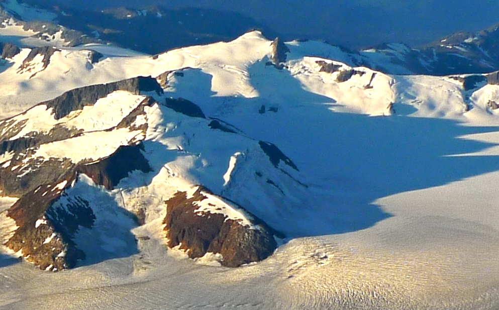 Looking south from airliner at Nugget Mountain centered at top if frame.